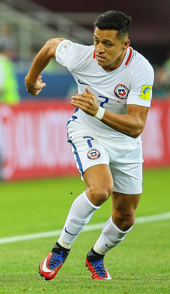 Cameroon vs Chile (0-2). FIFA Confederations Cup 2017